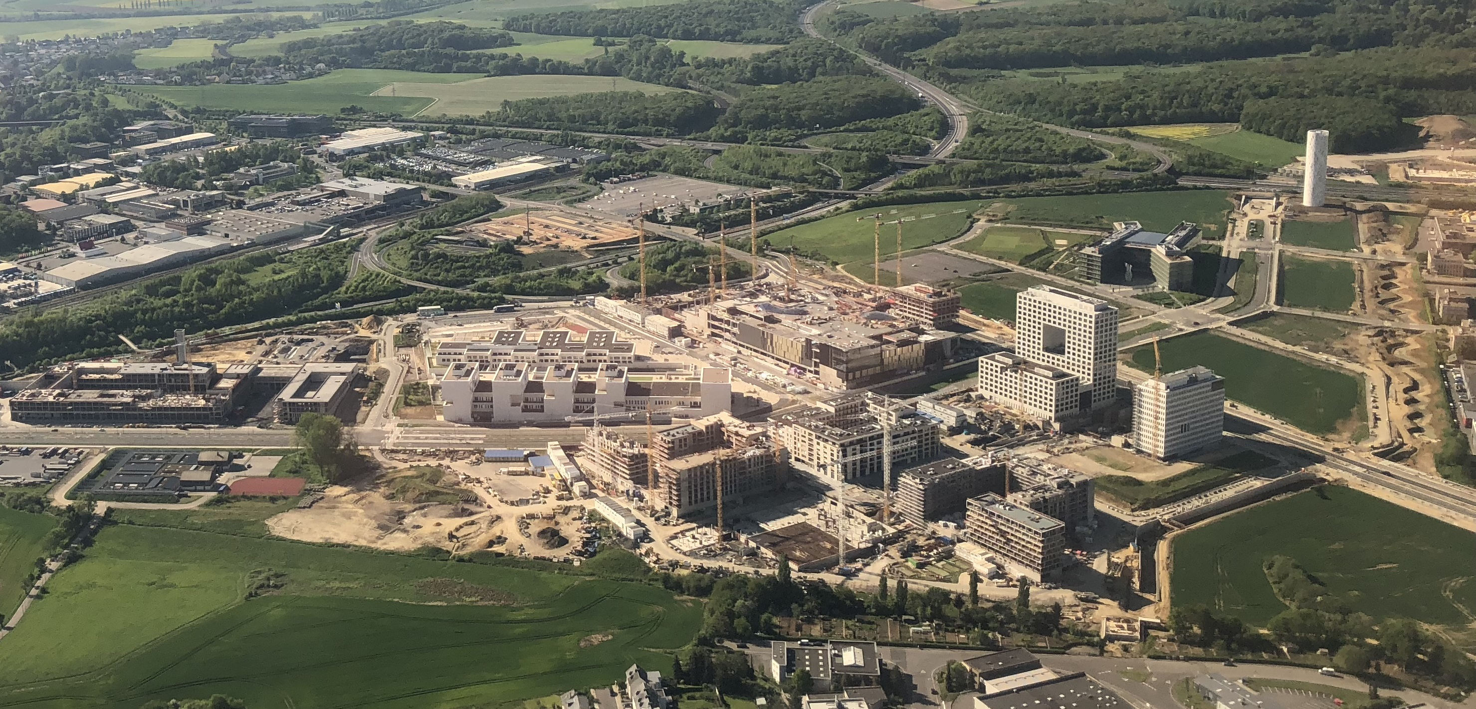 Aerial view of the Ban de Gasperich in Luxembourg City in May 2018.